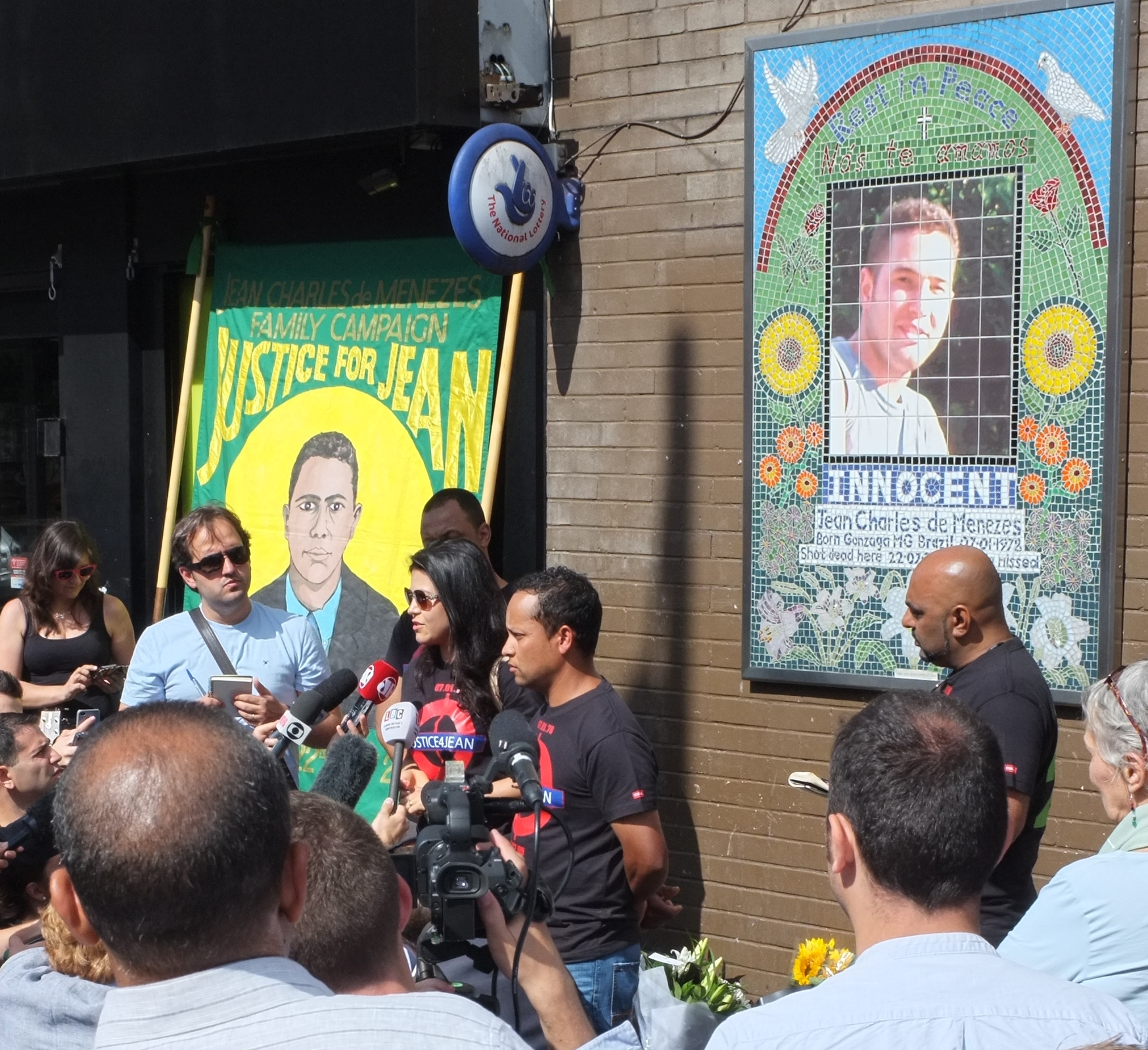 Jean Charles de Menezes Family Campaign on the 10th Anniversary of the Death of Jean Charles de Menezes just outside the Stockwell tube station on 22 July 2015. Speaking is his cousin Vivian Figueiredo.